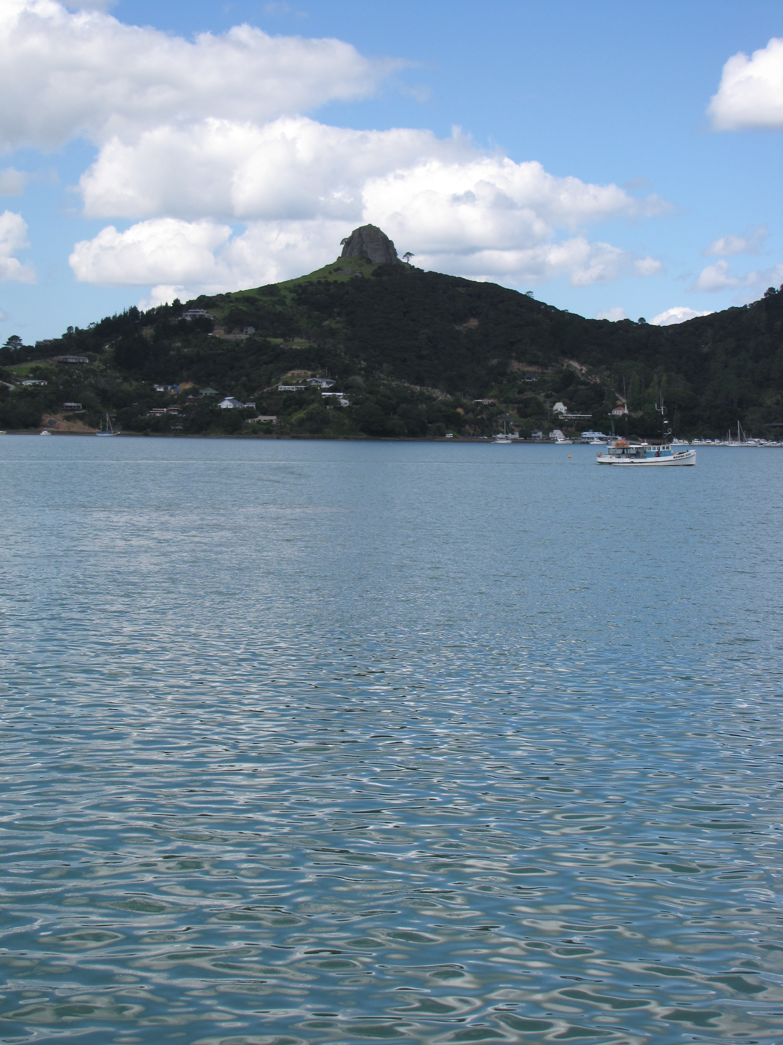 Whangaroa Harbour, Northland, New Zealand. The volcanic plug of St Paul rises over the settlement of Whangaroa.